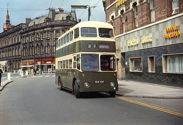 British Trolleybuses - Derby As it was 40 years ago, Victoria Street remains today an important picking up point for bus services, and the buildings are still there. Has the 60s facade of the Spotted Horse been modernised in the meantime? Double Diamond has certainly disappeared. For a slide show of British Trolleybuses in the late 60s Derby trolleybus 237 was built in 1959 by Sunbeam (model F4A), with a body by Roe.